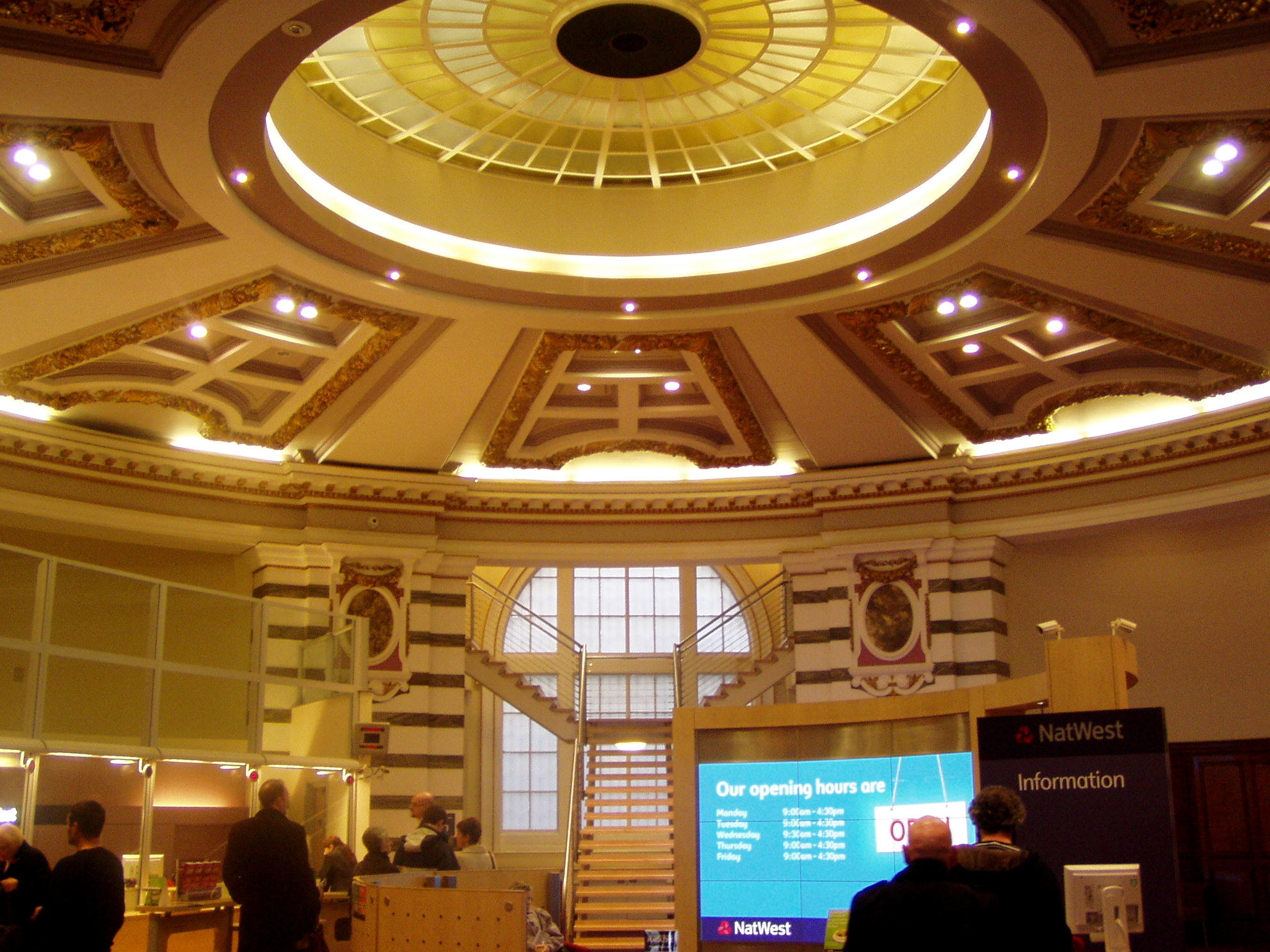 Interior of NatWest Castle Street, Liverpool